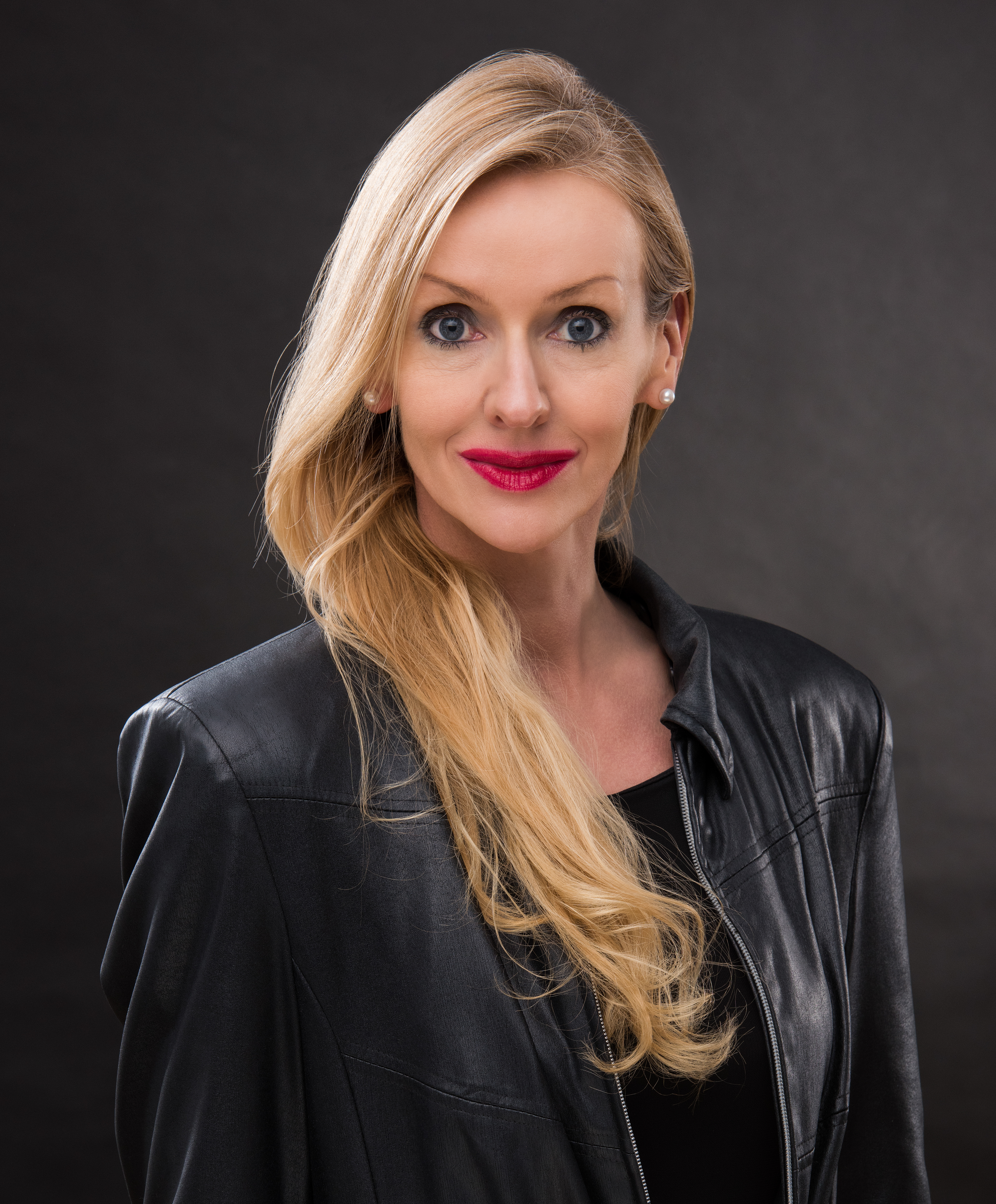 Corinna T. Sievers 2015